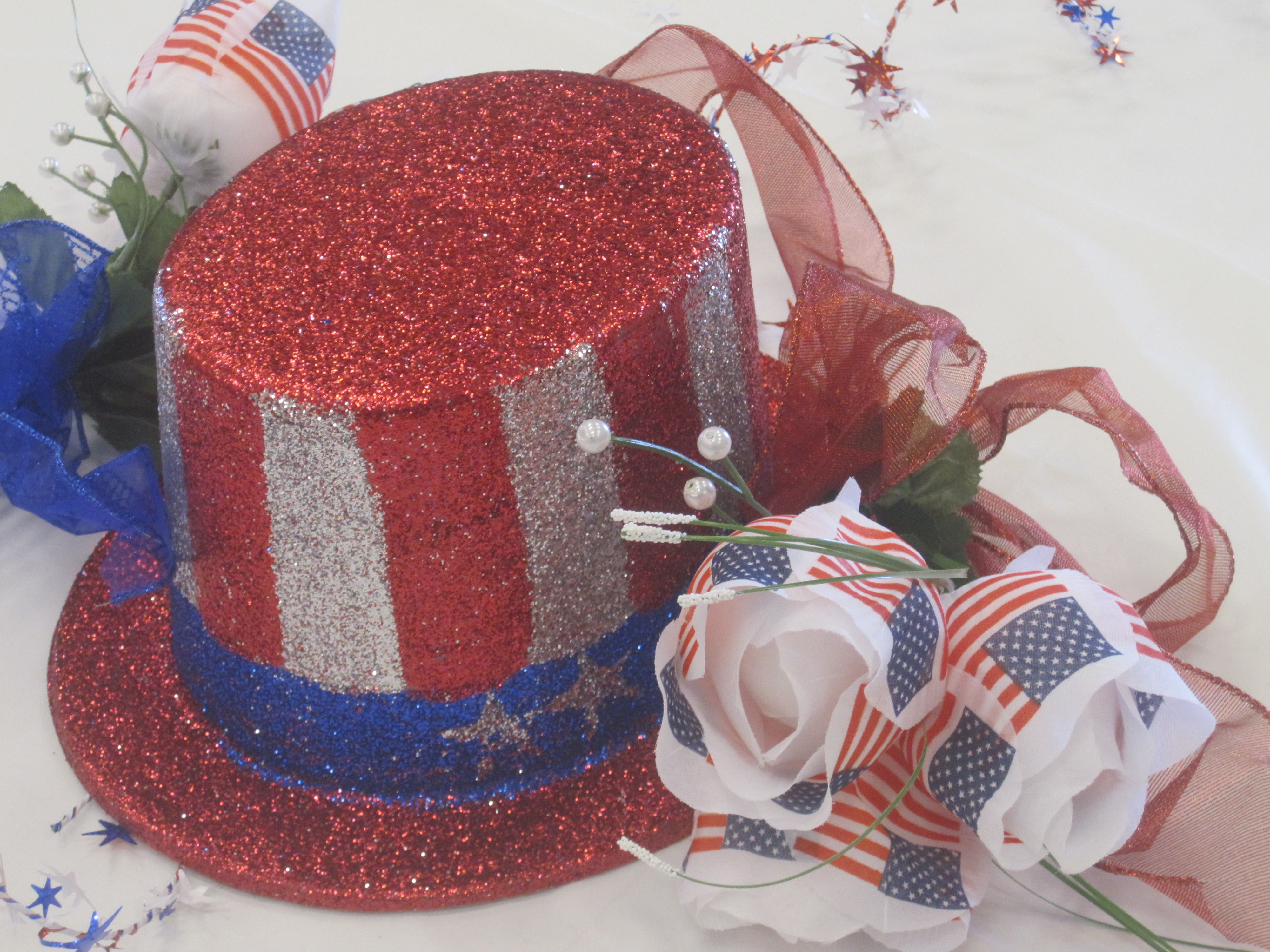 A table arrangement: top hat, ribbons, flags.